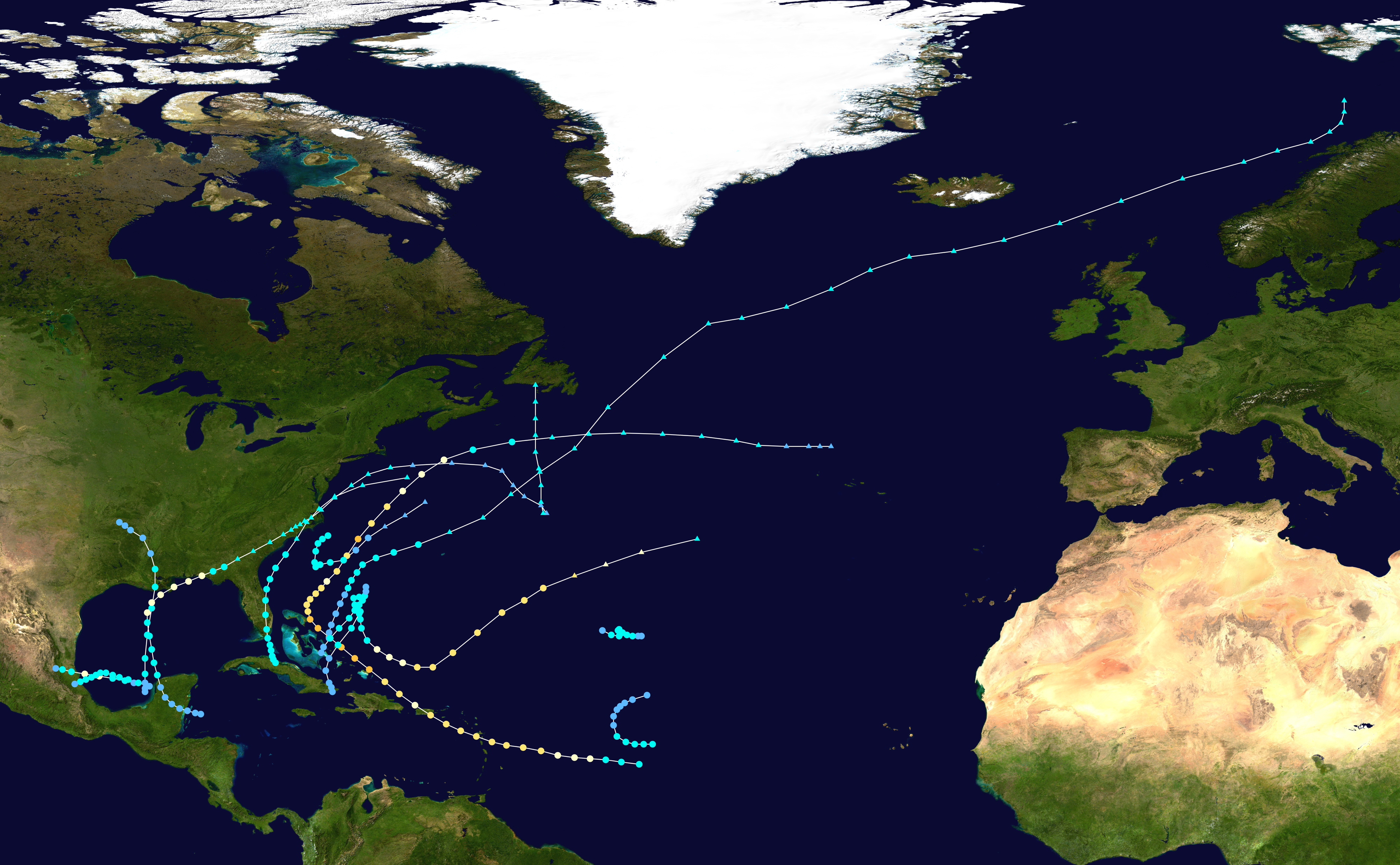 This map shows the tracks of all tropical cyclones in the 1956 Atlantic hurricane season. The points show the location of each storm at 6-hour intervals. The colour represents the storm's maximum sustained wind speeds as classified in the Saffir-Simpson Hurricane Scale (see below), and the shape of the data points represent the type of the storm. Saffir–Simpson hurricane wind scale Tropical depression≤38 mph≤62 km/h Category 3111–129 mph178–208 km/h Tropical storm39–73 mph63–118 km/h Category 4130–156 mph209–251 km/h Category 174–95 mph119–153 km/h Category 5≥157 mph≥252 km/h Category 296–110 mph154–177 km/h Unknown Storm typeTropical cycloneSubtropical cycloneExtratropical cyclone / Remnant low / Tropical disturbance